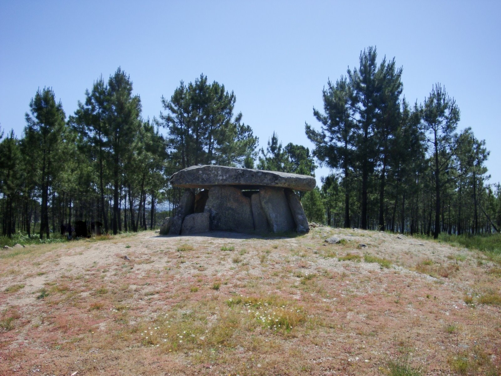 Orca dolmen, Lapa da Orca or Orca de Fiais da Telha. Located in the district of Viseu, Portugal, the nearest village is Penedono and the nearest village is Fiais da Telha.